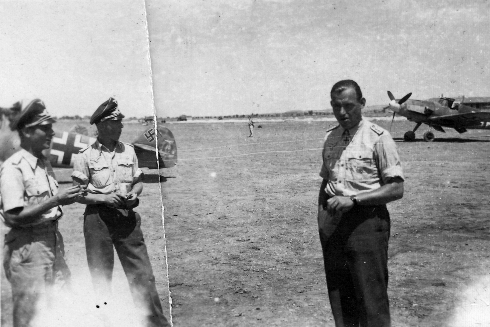 German Luftwaffe ace Oskar-Heinz Bär (right) the Stab I./JG 77. The photo was probably taken at Comiso, Italy, in July 1942. The Messerschmitt Me 109F-4 to the left shows kill markings and a wreath of oak leafs surrounding the number 40 (for 40 kills). Bär himself had 100+ kills at that time and finished the war with 221 kills.For more photos see [1].